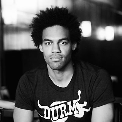 Musician, Professor, Afrofuturist